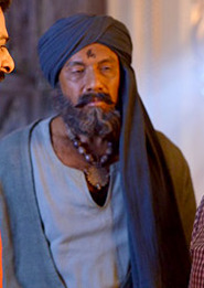 Actor Sathyaraj filming for Baahubali the Conclusion